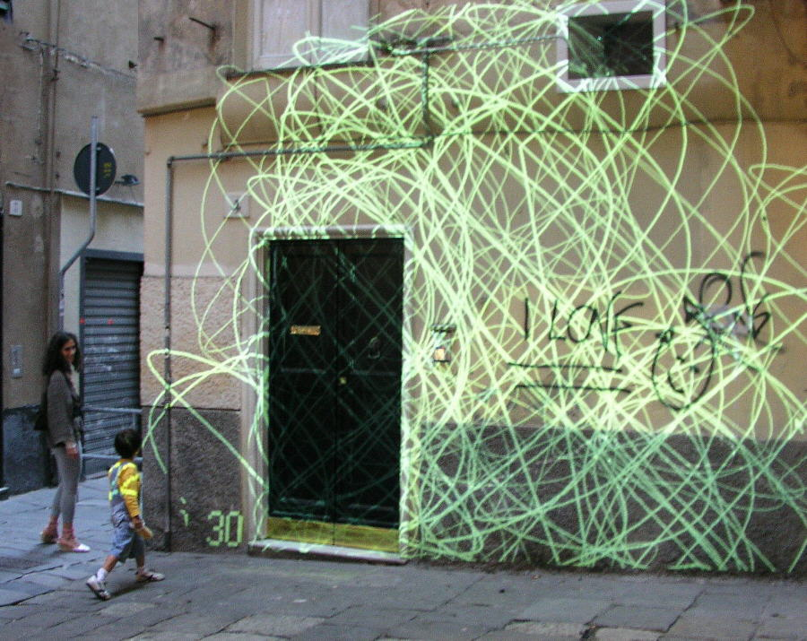 Untitled (CIM's series, 2005) by Maurizio Bolognini